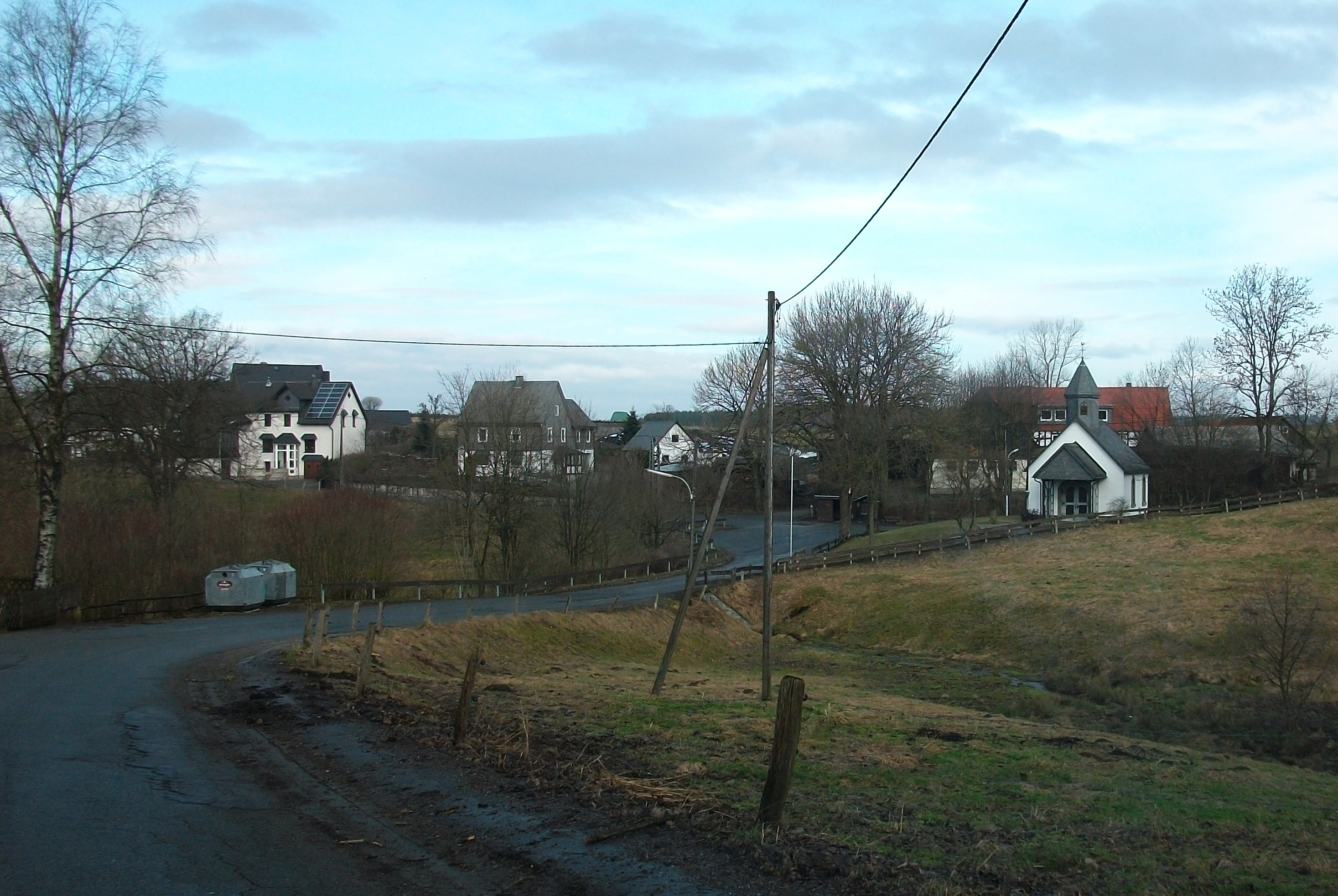 Brilon-Rixen (Germany)